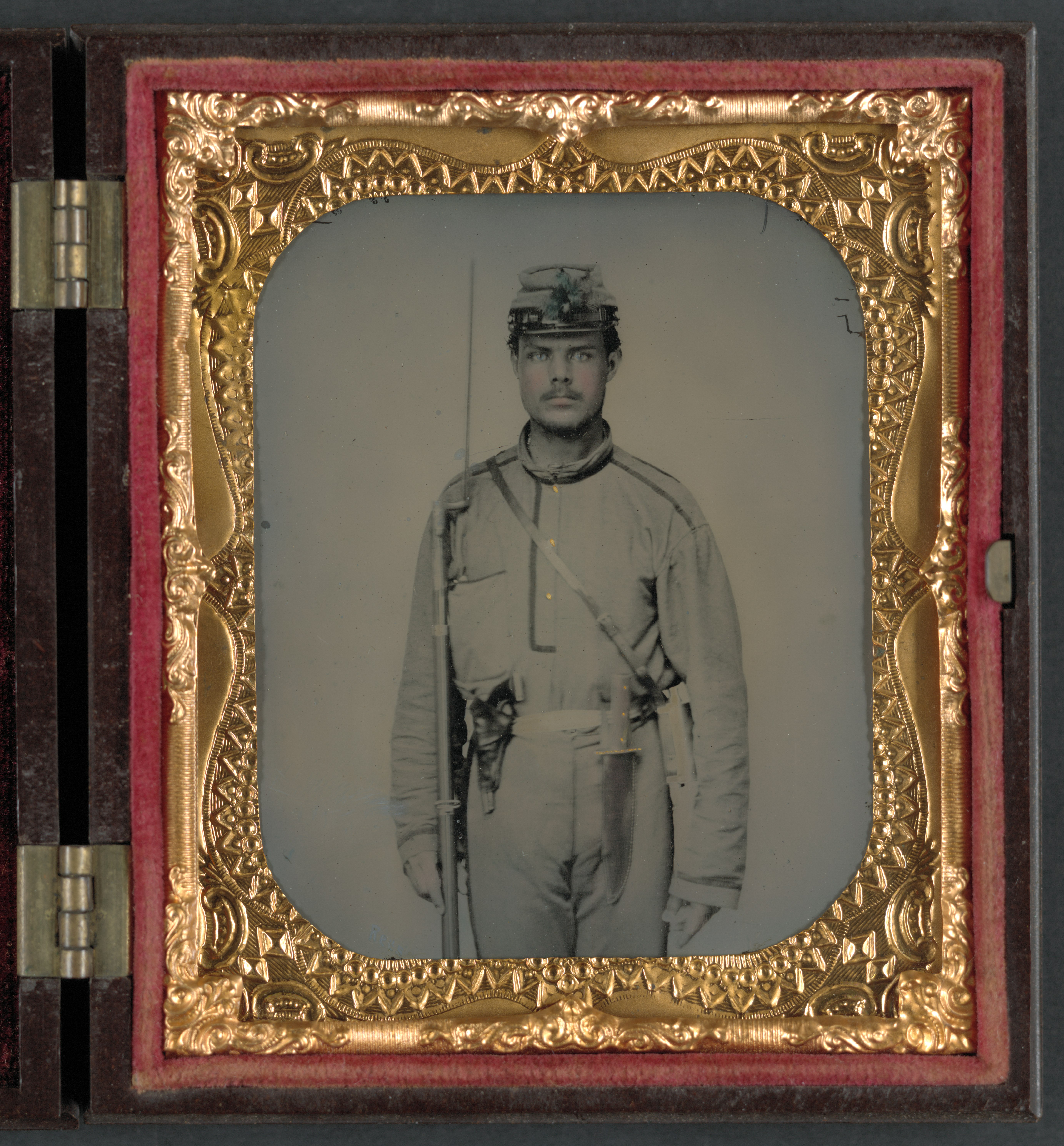 Title: James W. Millner of Company K, 38th Virginia Infantry Regiment with bayoneted musket, holstered pistol, and knife Abstract/medium: 1 photograph : sixth-plate ambrotype, hand-colored ; 9.7 x 8.3 cm (case)